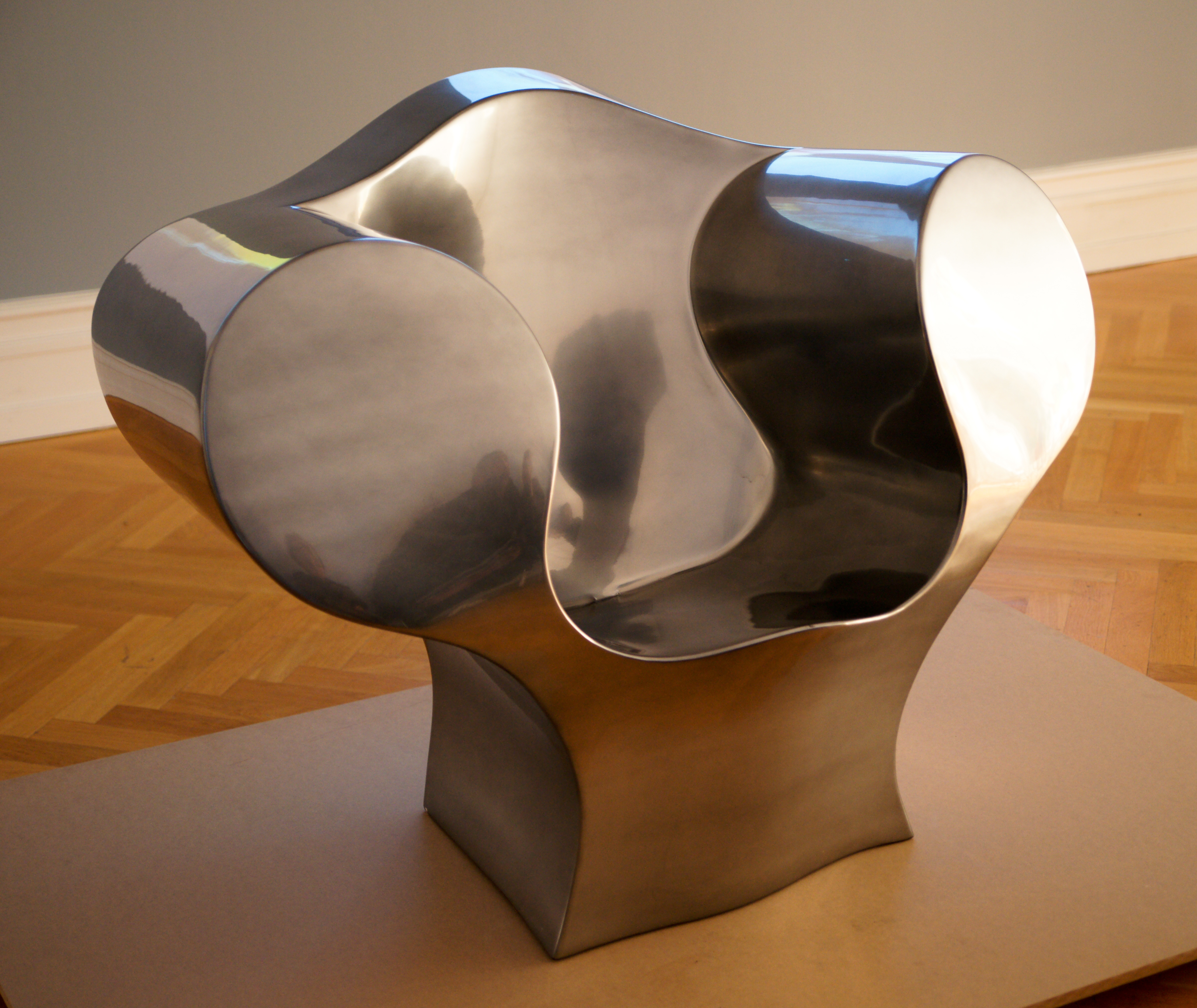 The Big Easy chair by Moroso, exceptionally produced in chrome steel rather than polyethylene